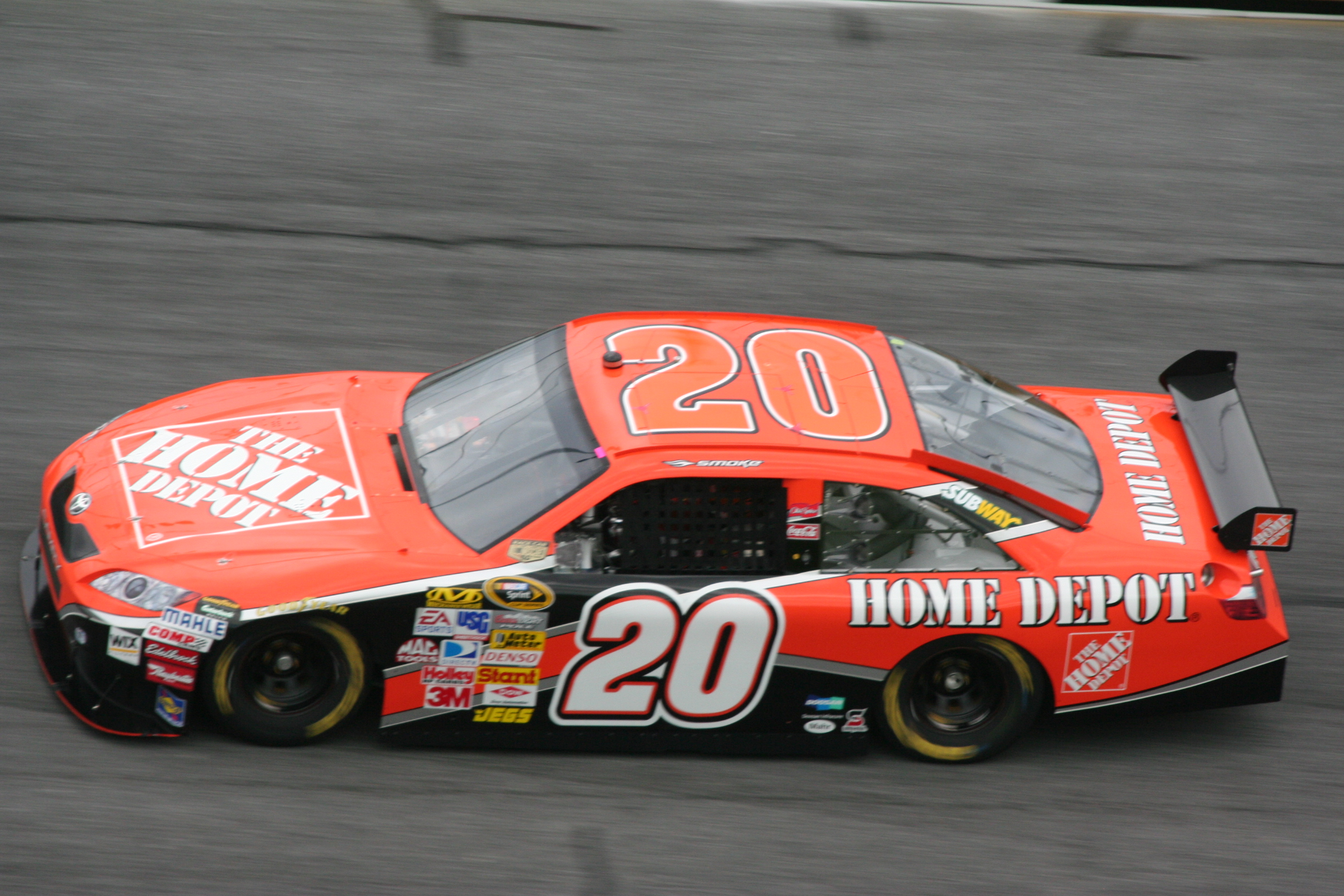 Shot by "The Daredevil" at Daytona during Speedweeks 2008Tony Stewart Home Depot Toyota Camry